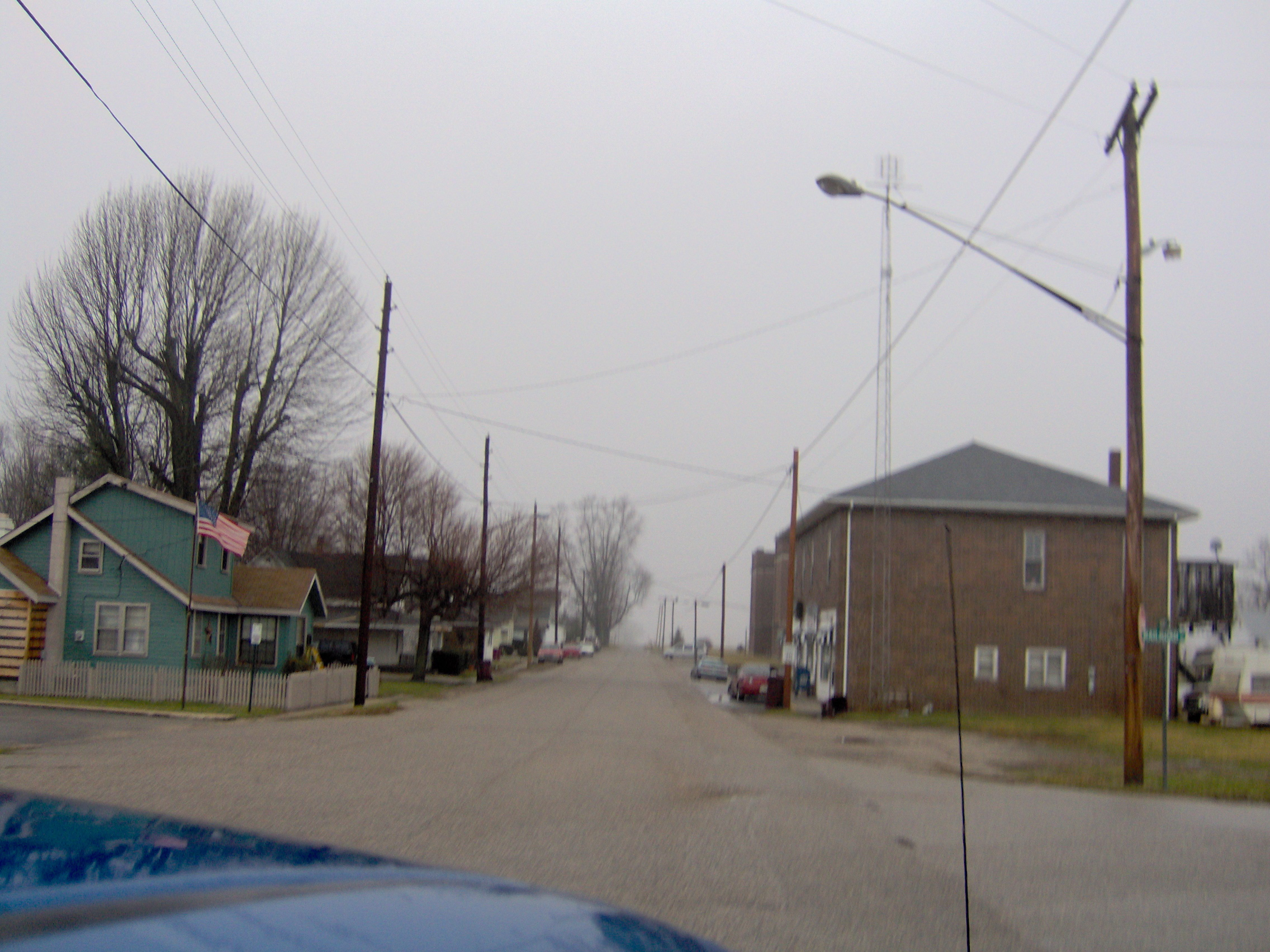 View of the main street of Onward, Indiana, taken out of the window of the car visible in the bottom left corner. Picture taken by Nyttend on 15 January 2007.